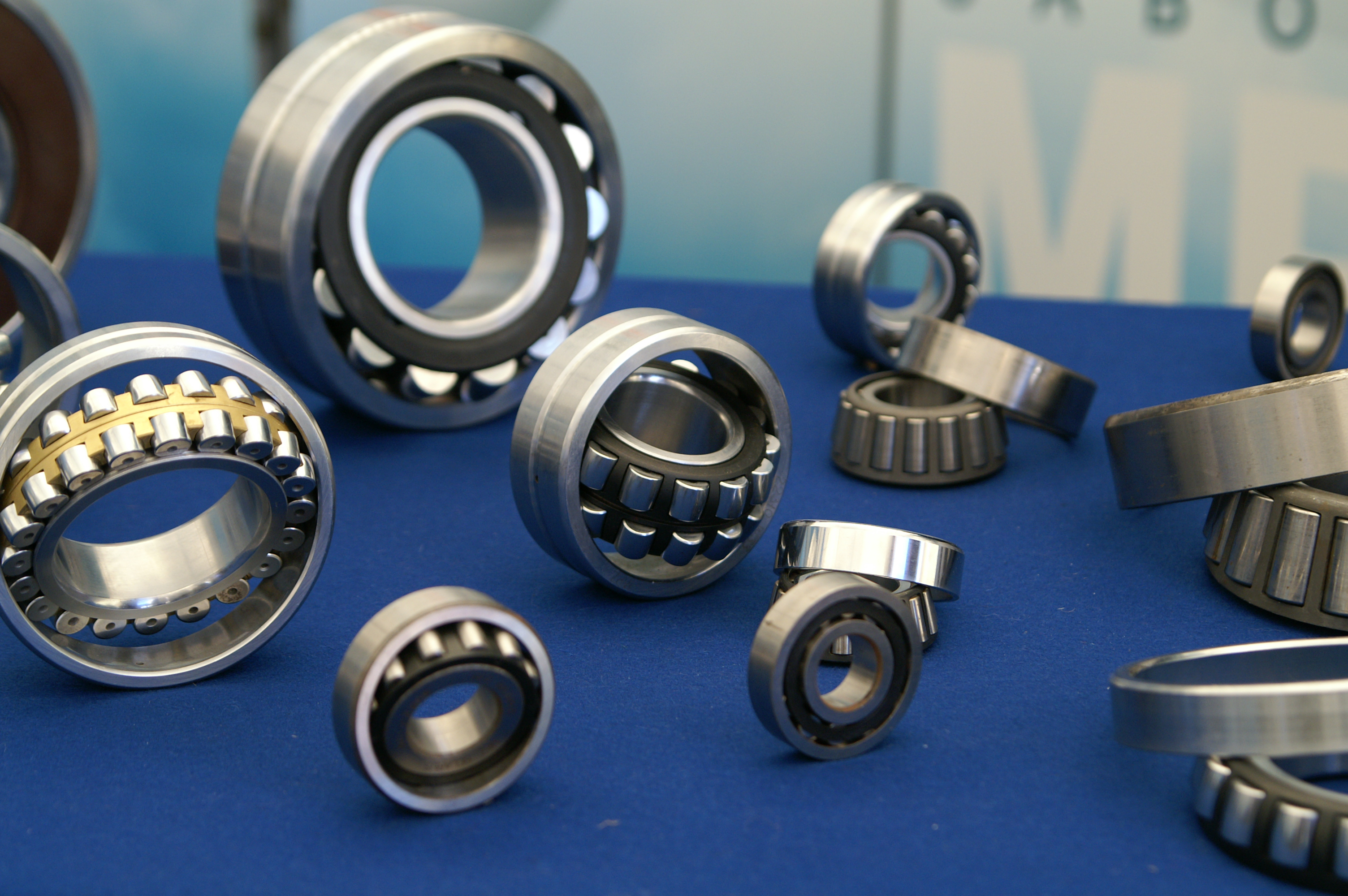 Various bearings on exhibition in Minsk